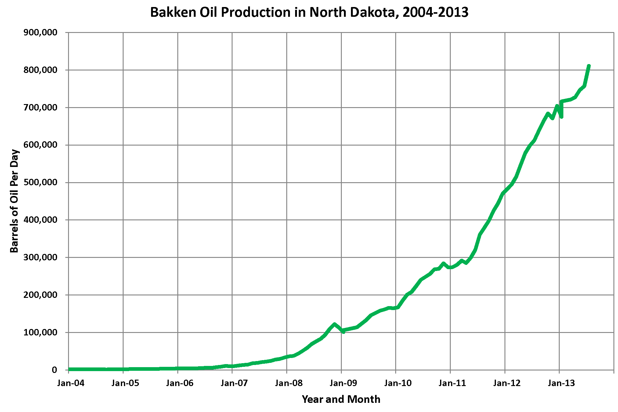 Monthly oil production from the Bakken snd Three Forks formations in North Dakota